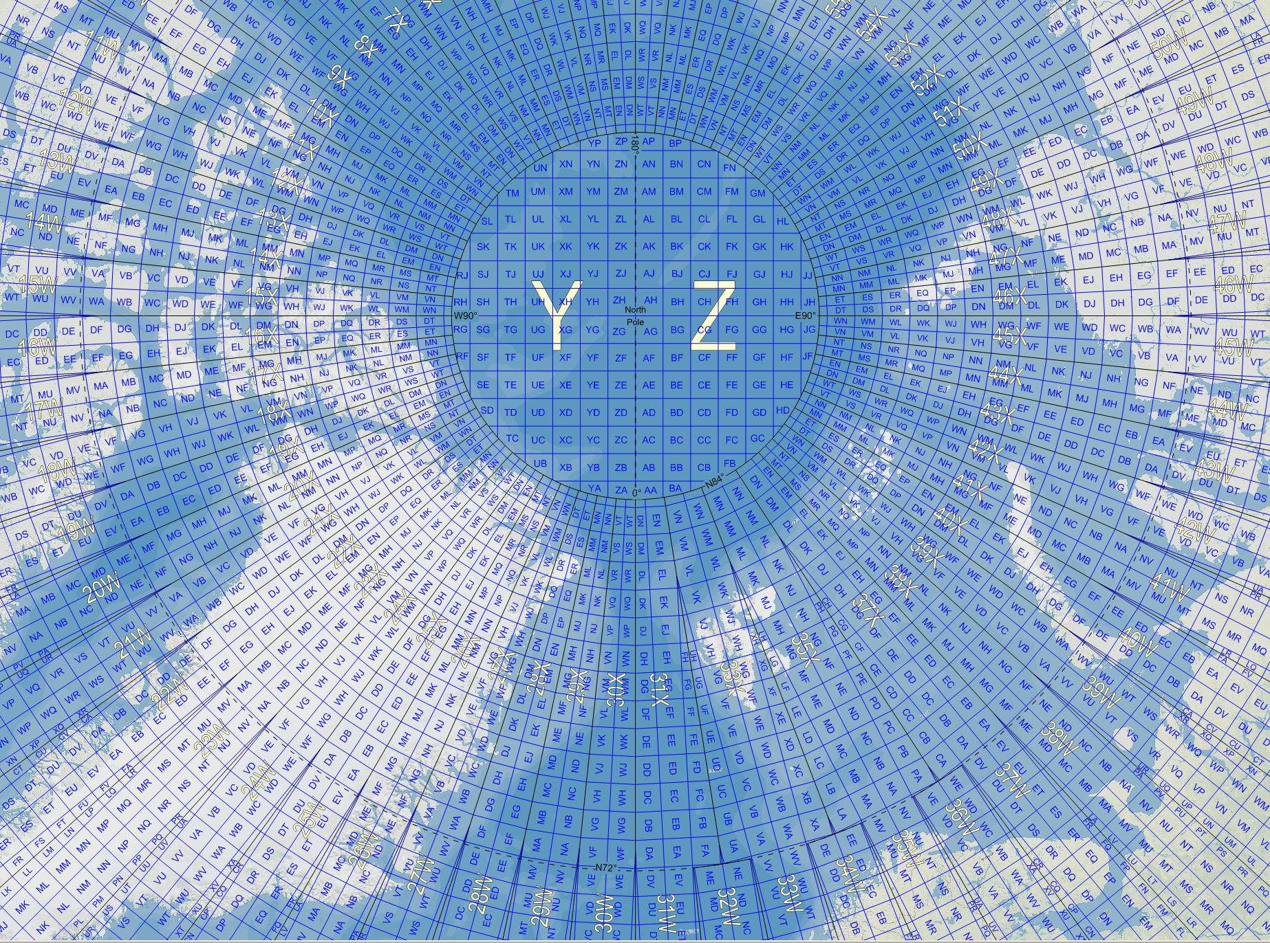 Map of the Military Grid Reference System (MGRS) around the North Pole, with the AA lettering scheme for the 100 km squares south of 84°N.